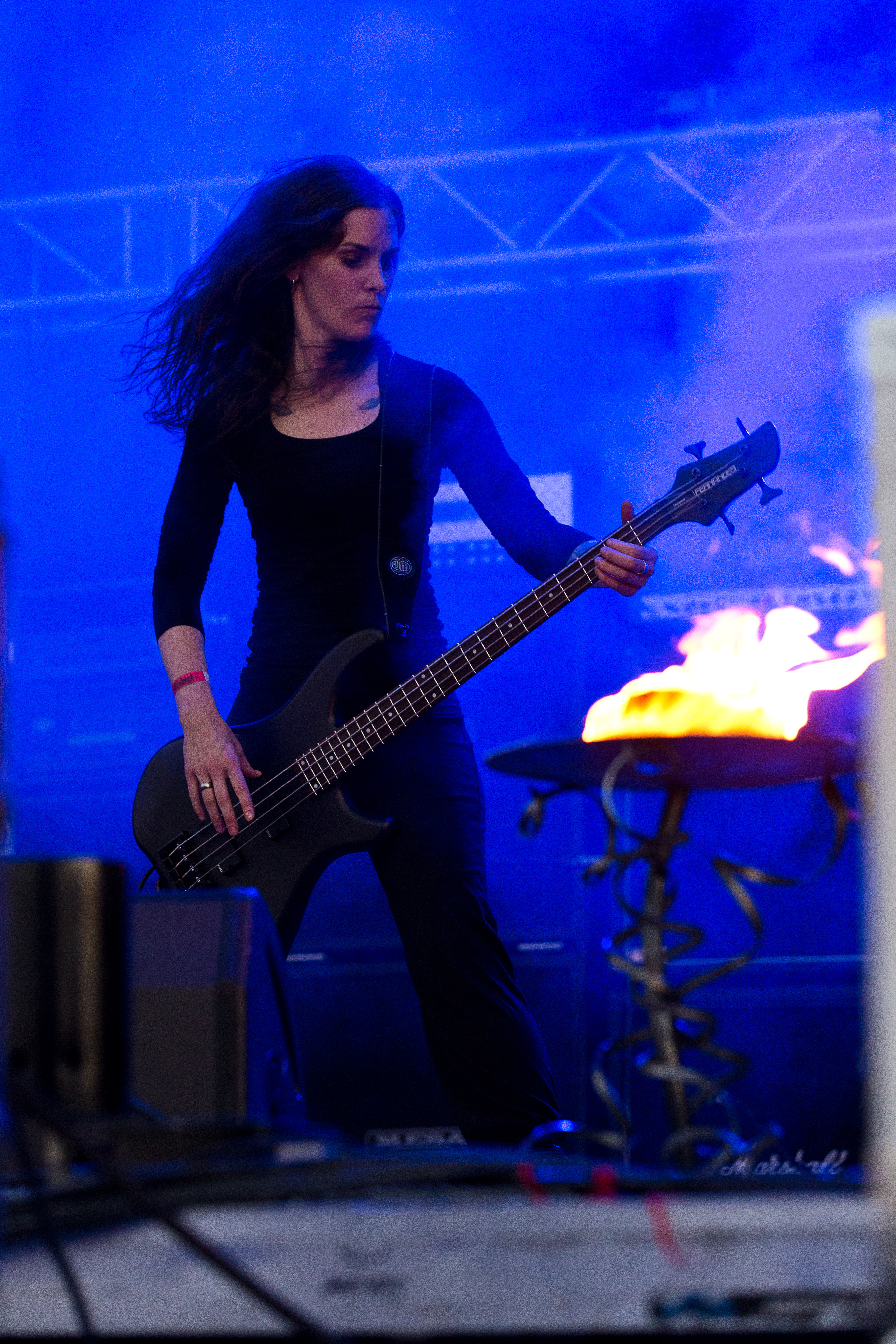 The German black metal band Secrets of the Moon at the Party.San Open Air 2015 in Obermehler-Schlotheim/Germany.